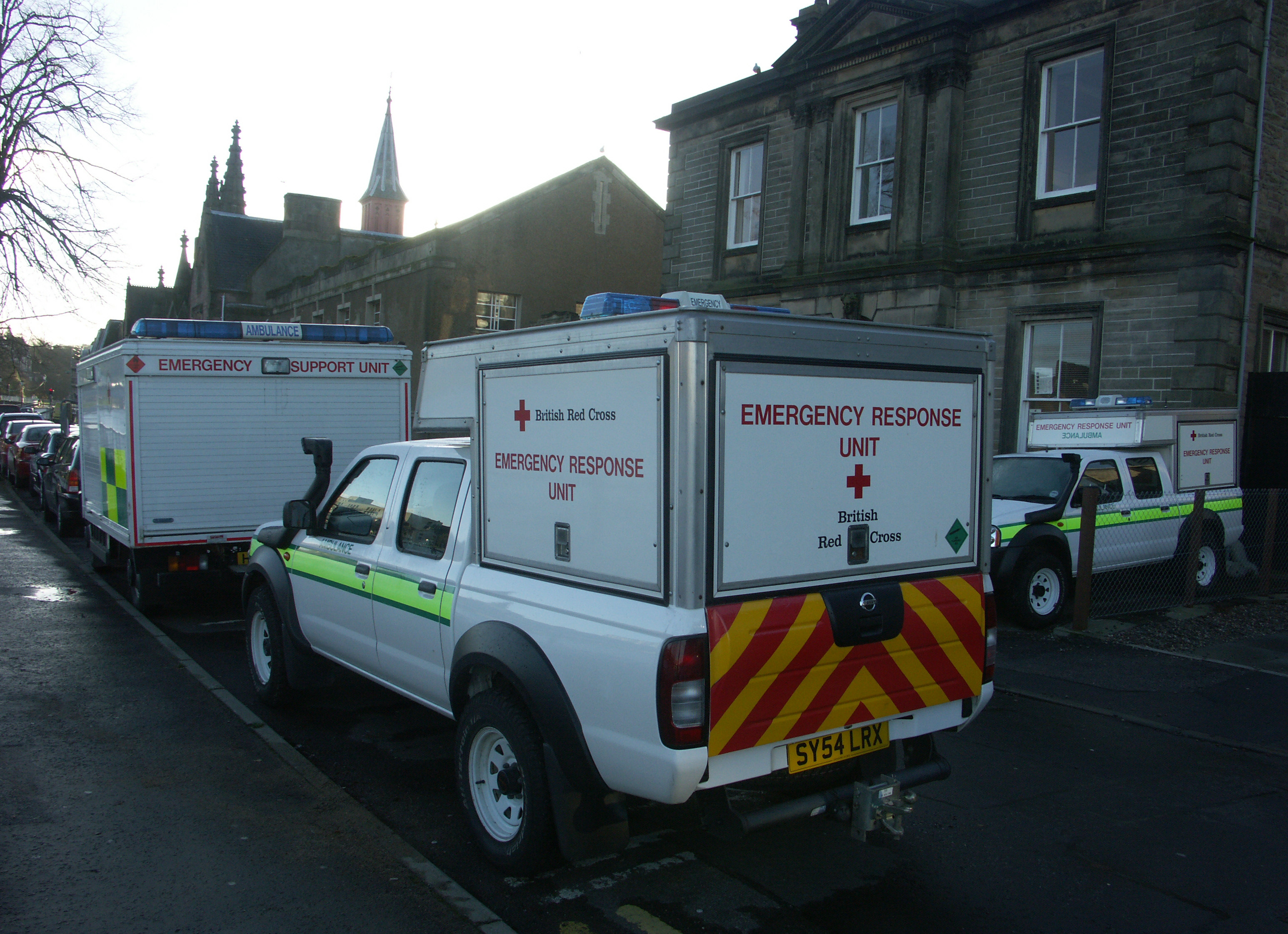 Emergency Support Unit and Emergency Response Units outside British Red Cross HQ in Inverness